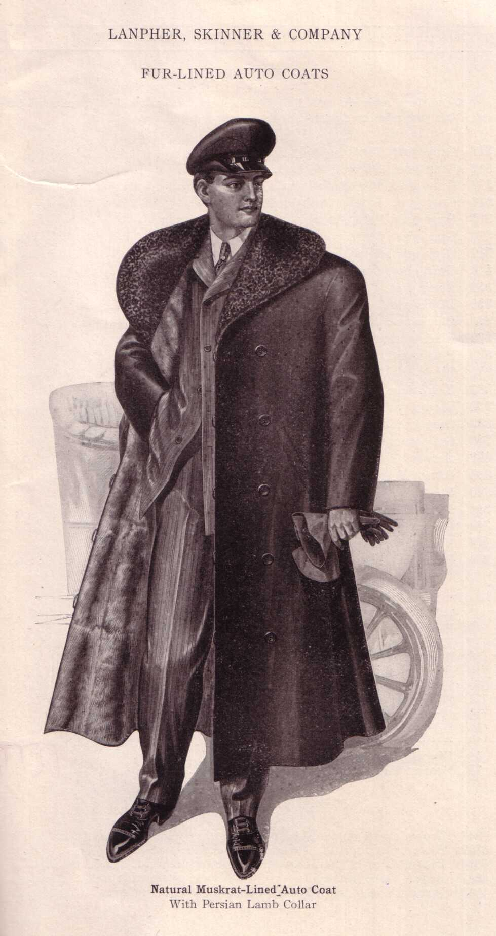 Fur Retail Trade Lanpher Furs, Natural Muskrat-Lined Auto Coat With Persian Lamb Collar.